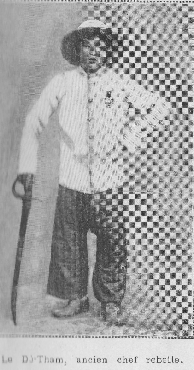 Hoang-Hoa-Tham, Vietnamese leader of one the major insurrections against French rule in Indochina in the early 20th century